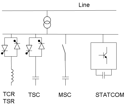 Examples of FACTS for shunt compensation (schematic)